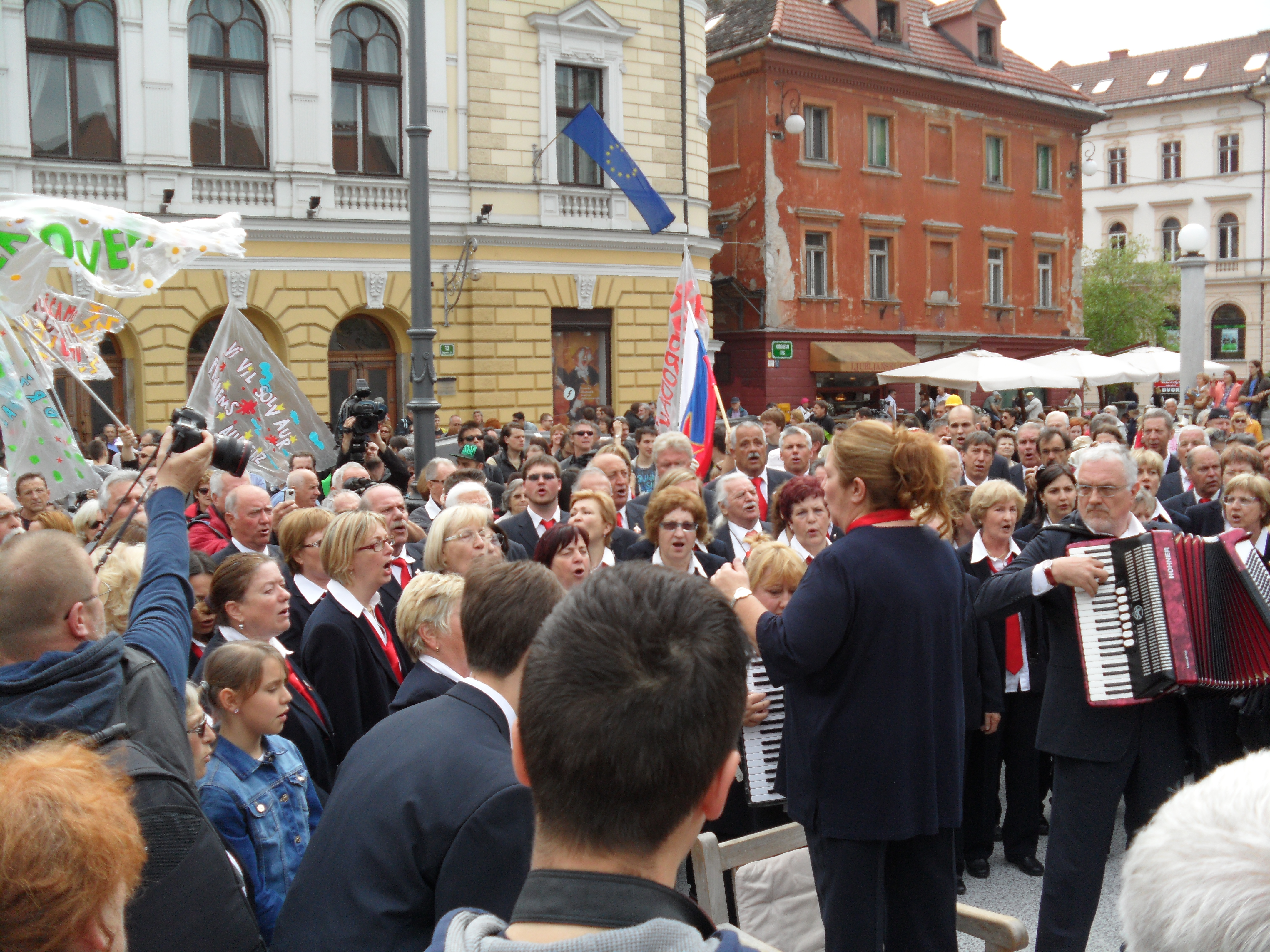 Demonstration in Ljubljana on Saturday, April 27th, 2013. The demonstration is being organized by the All Slovenian Uprising, whose supporters have staged rallies around the country calling for Slovenia’s “political elites” to step down. April 27th holds symbolic meaning (the formation of the liberation front during WWII) and many protesters of the event were wearing Ex-Yugoslav symbols. Around 2000 people attended the event.